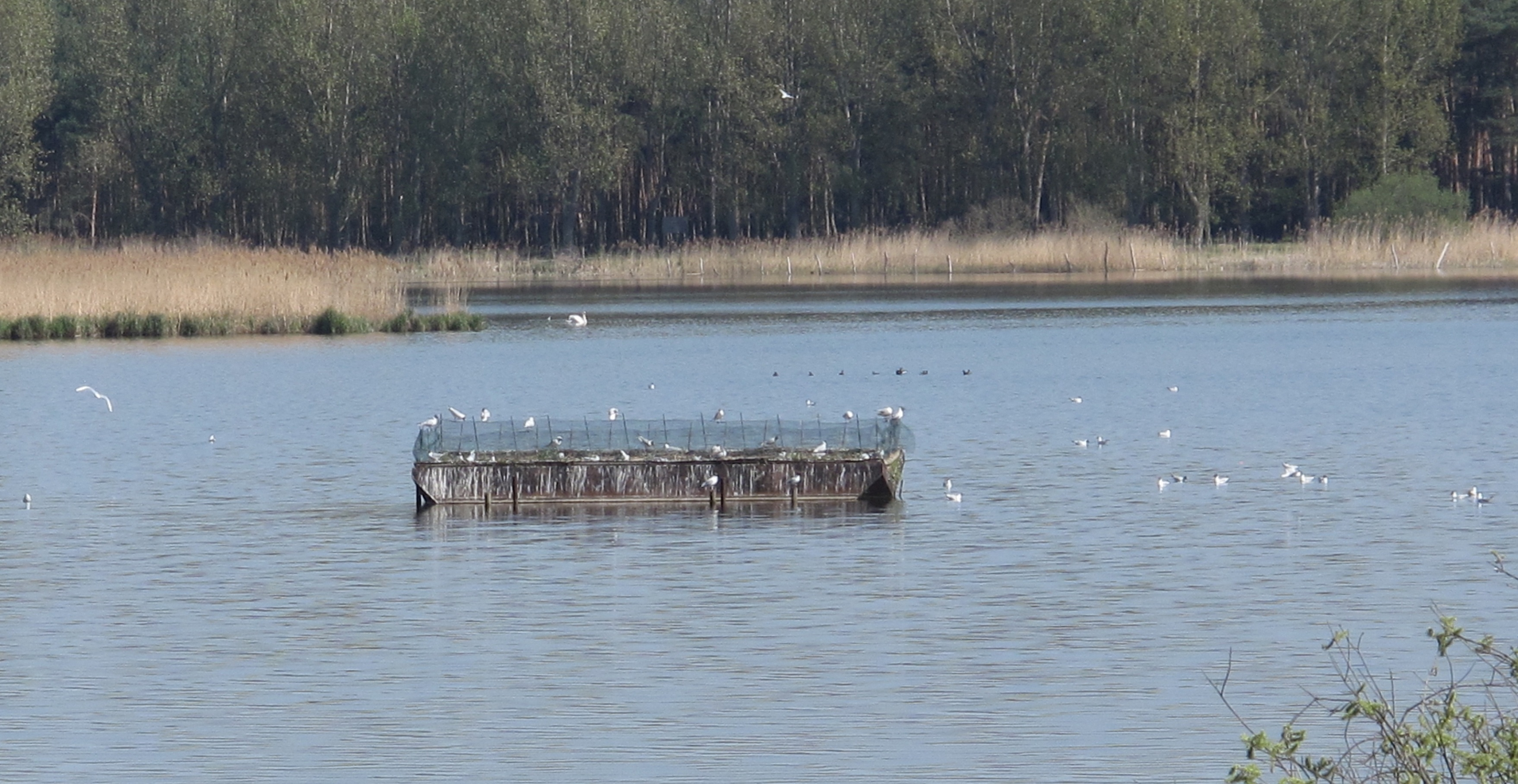 The Europäisches Vogelschutzgebiet Altfriedländer Teich- und Seengebiet is a European bird protection area (SPA) around Altfriedland, a village of the municipality Neuhardenberg in the District Märkisch-Oderland, Brandenburg, Germany. The Kietzer See is the body of water at the center of the area.